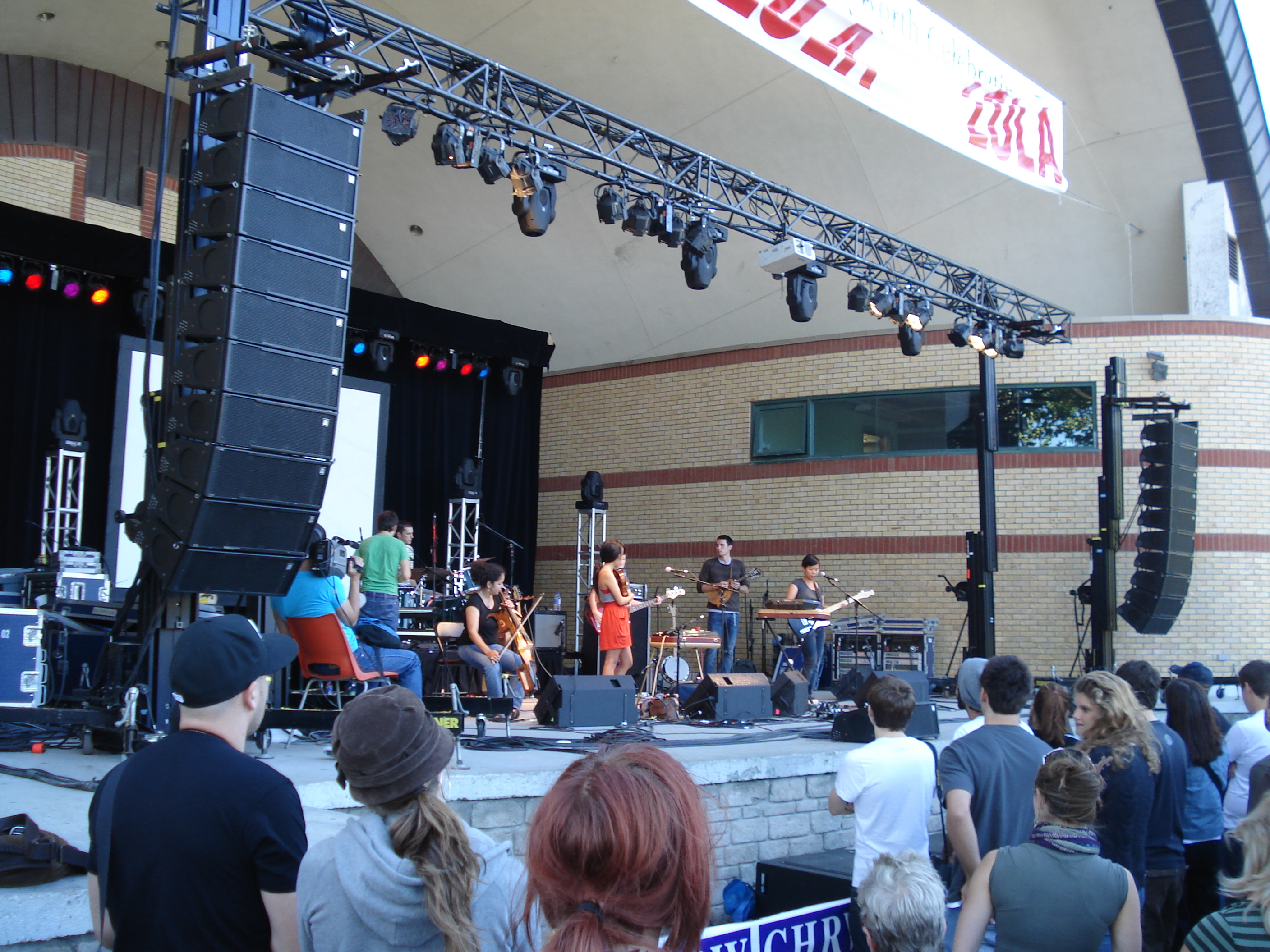 Ohbijou performing in London, Ontario during London Ontario Live Arts Festival (LOLA)